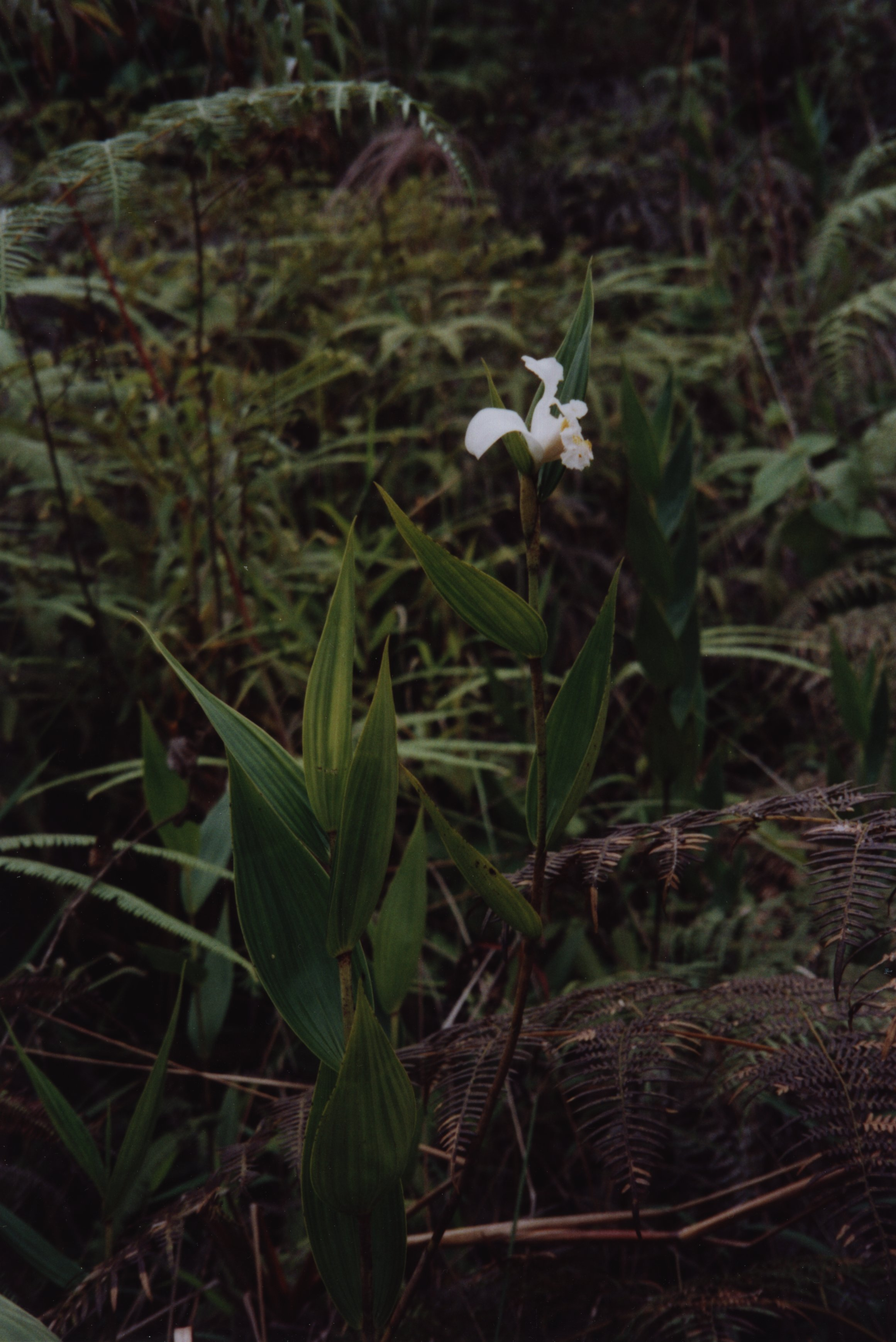 Sobralia spec., Photo on the Street between Jají and La Azulita in Venezuela